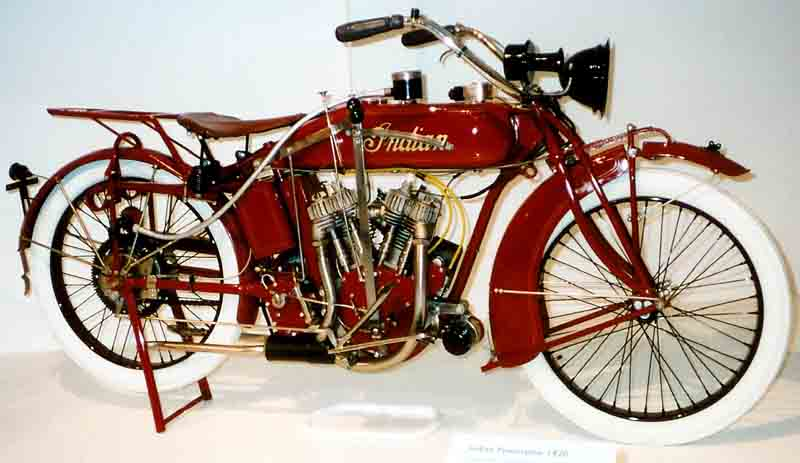 Indian Power Plus 1000 cc 1920